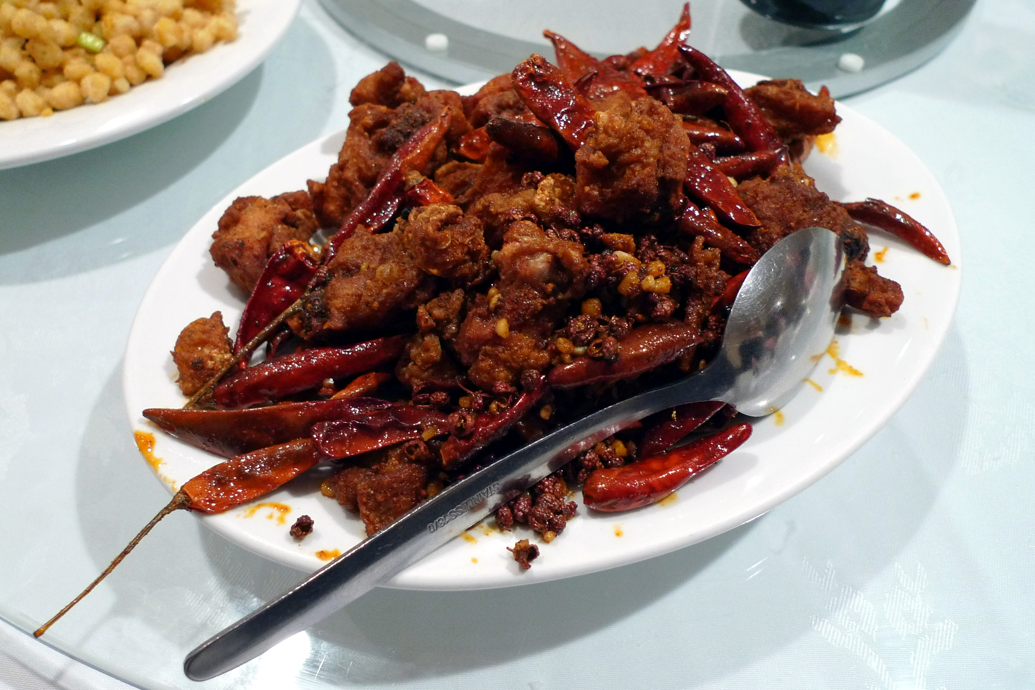 Chicken with chillies, aka la zi ji. This was one of the stand-out dishes. At Sichuan Restaurant, Churchfield Road.